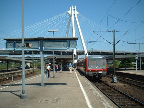 l-hafen train station